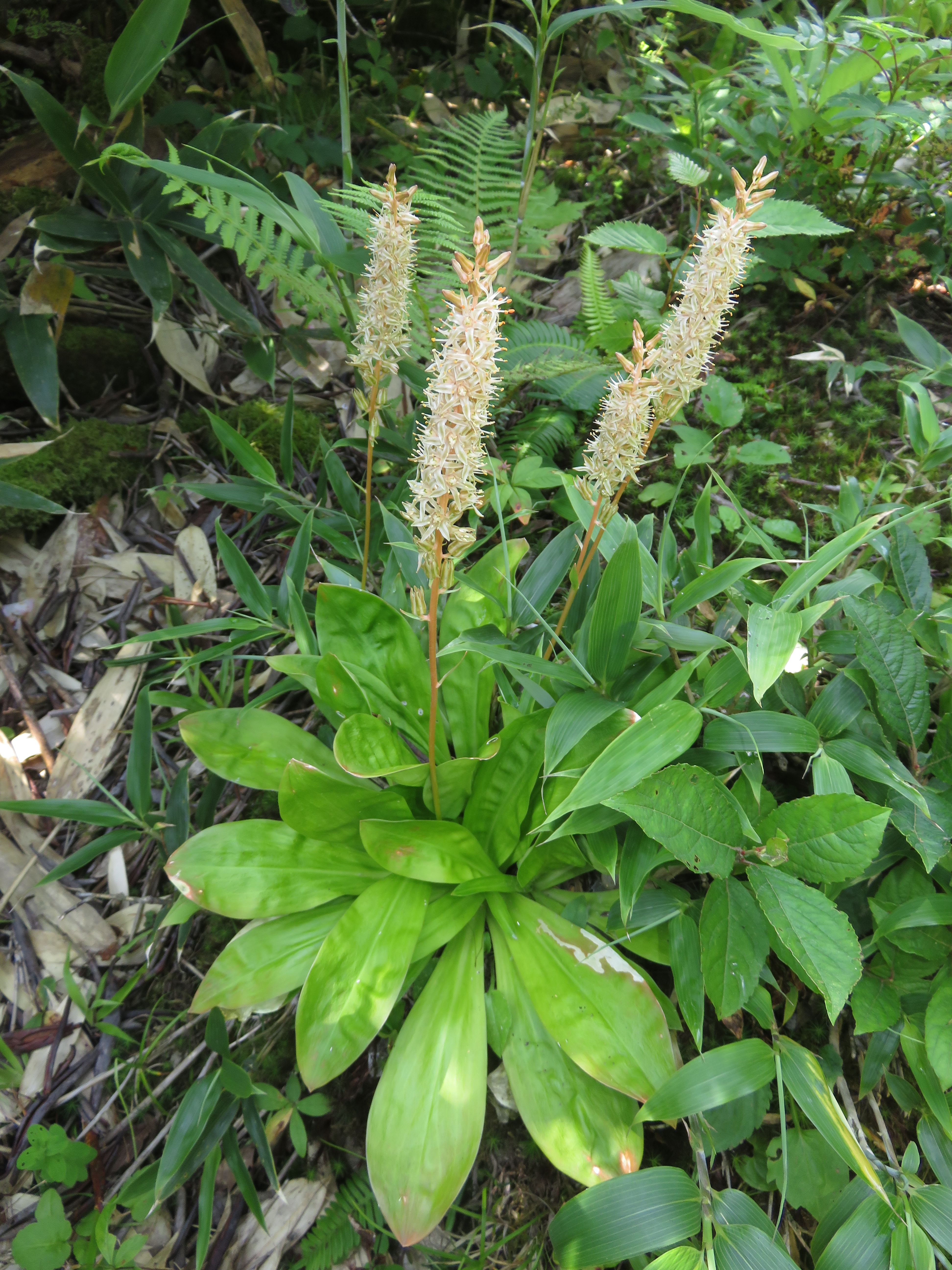 Metanarthecium luteoviridis, Mount Adatara, Fukushima pref., Japan